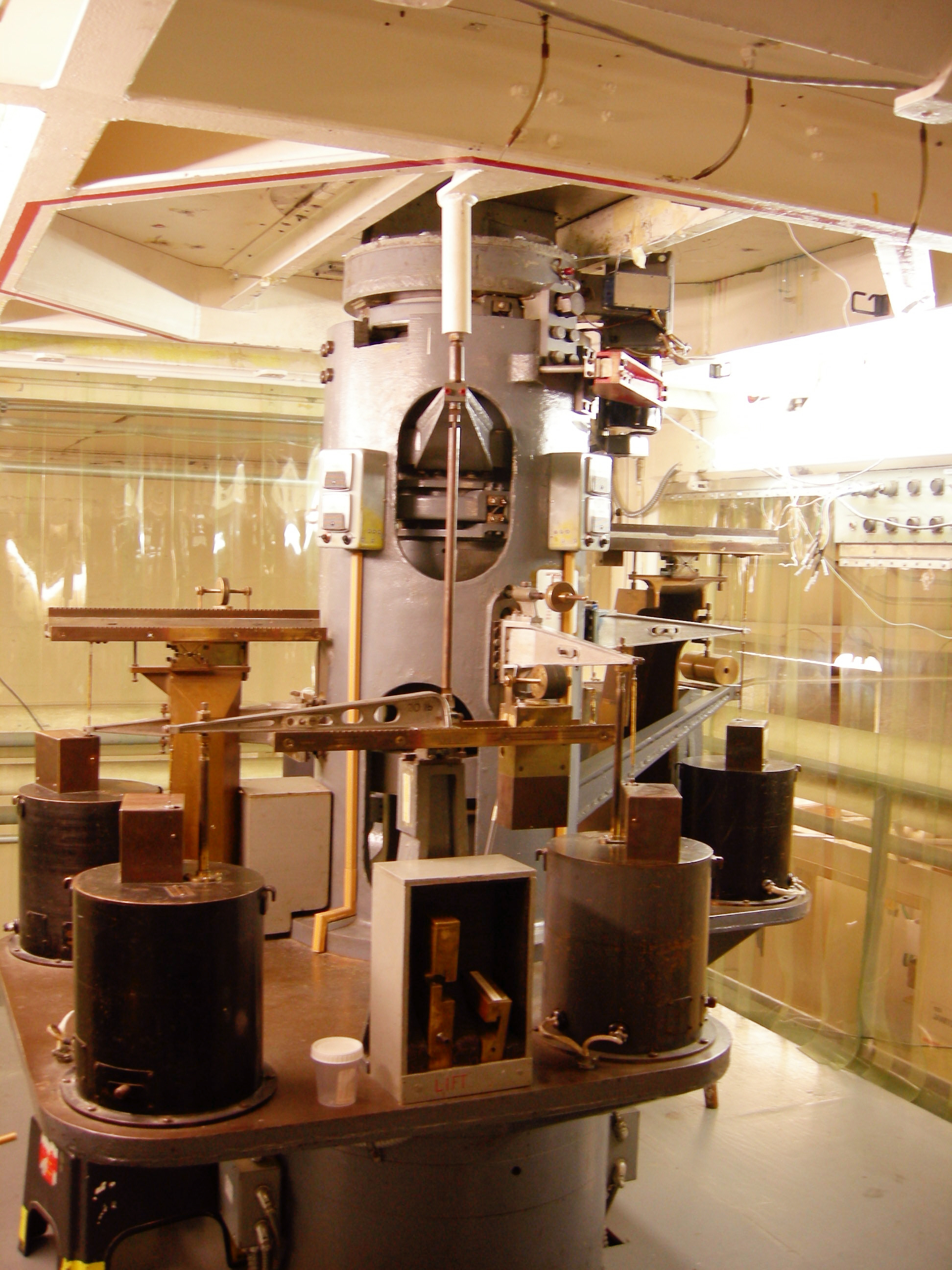 6-component external balance, F.K. Kirsten Wind Tunnel, University of Washington Aeronautical Laboratory (UWAL), University of Washington, Seattle, Washington.